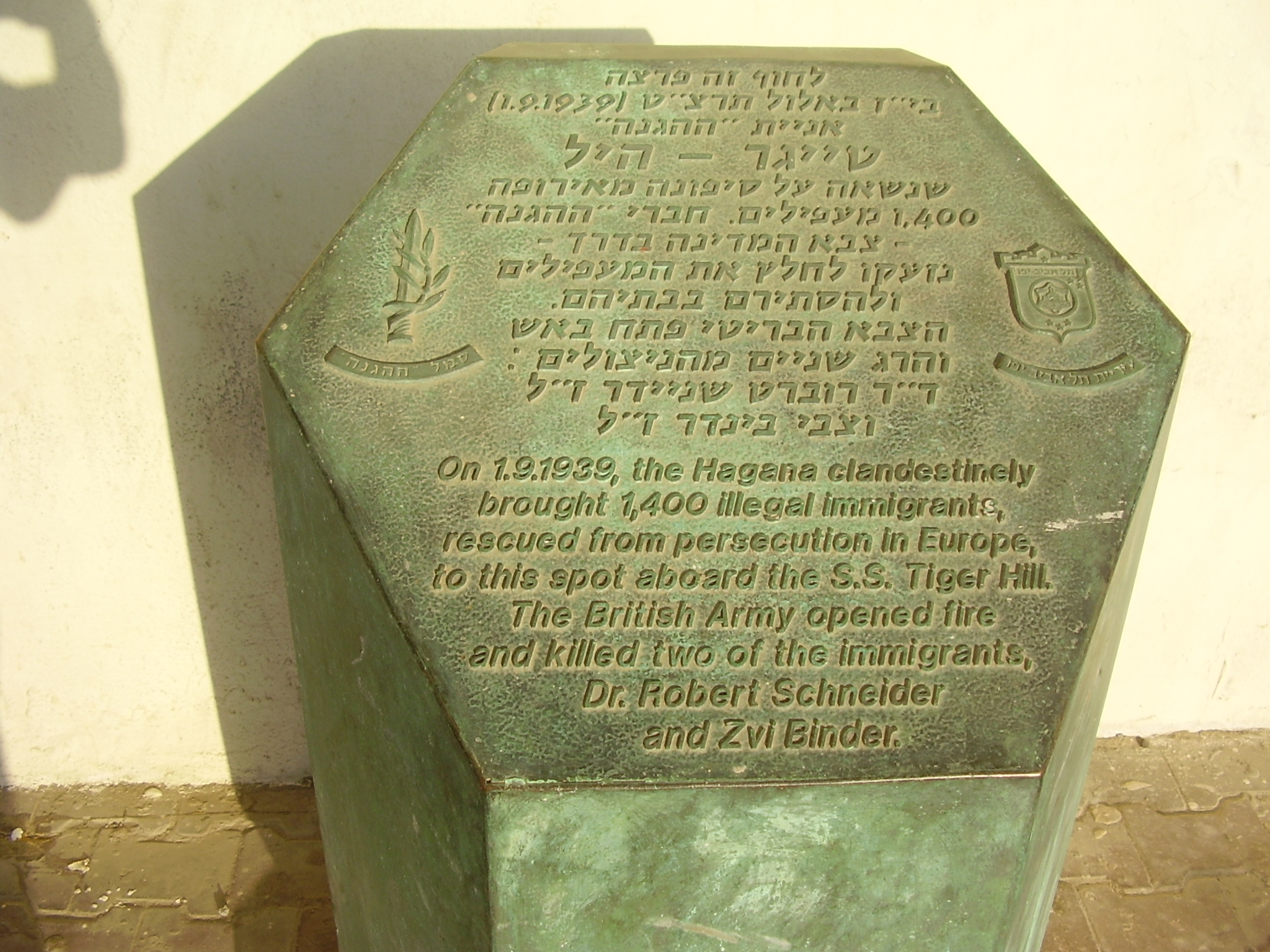 memorial to the immigrants ship tiger hill in tel aviv beach עמוד זיכרון לספינת המעפילים "טייגר היל" בחוף תל אביב